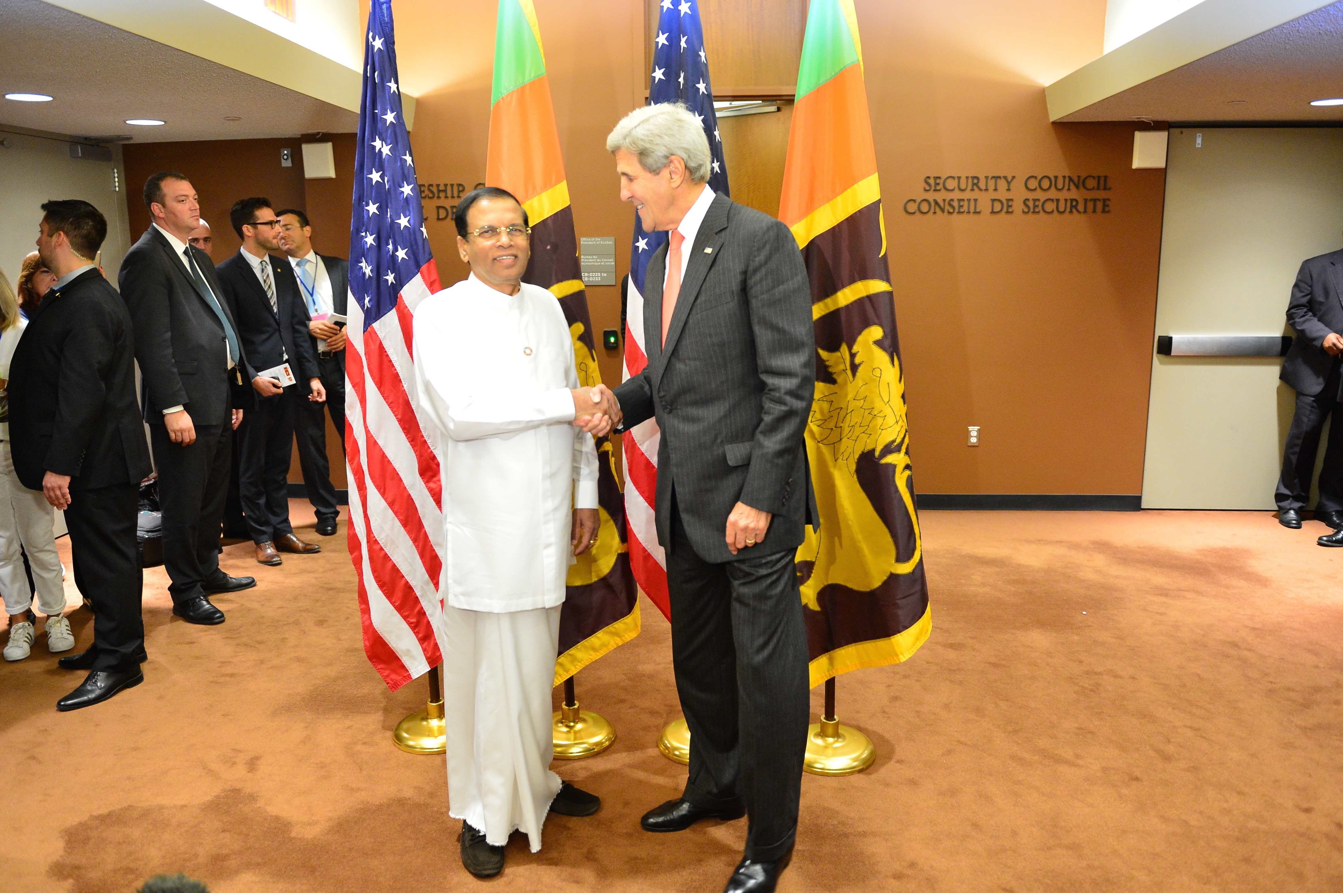 U.S. Secretary of State John Kerry meets with Sri Lankan President Maithripala Sirisena, at the United Nations, in New York City, New York on September 21, 2016. [State Department Photo/Public Domain]